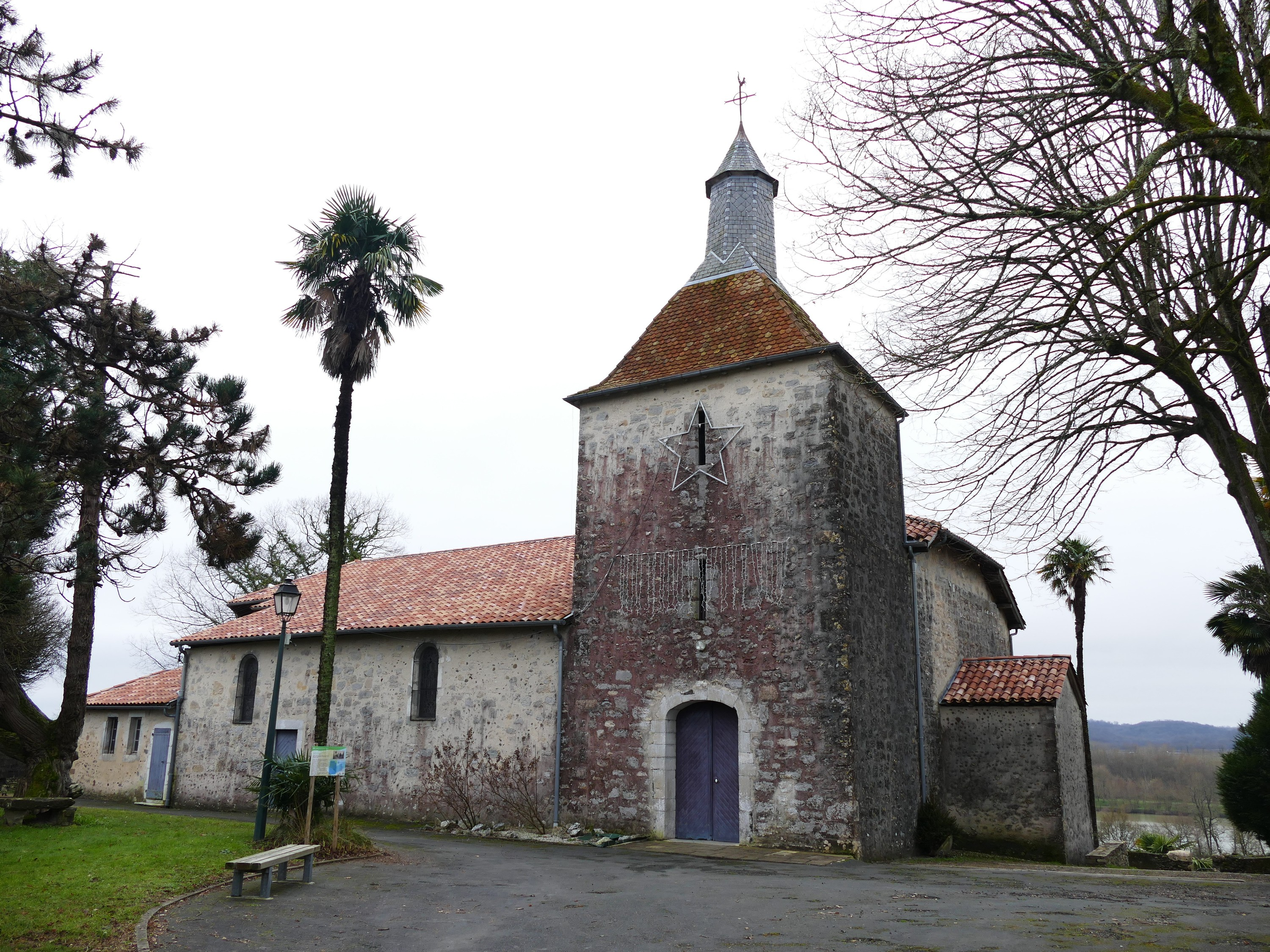 Saint-Romain's church in Labatut (Landes, Nouvelle-Aquitaine, France).